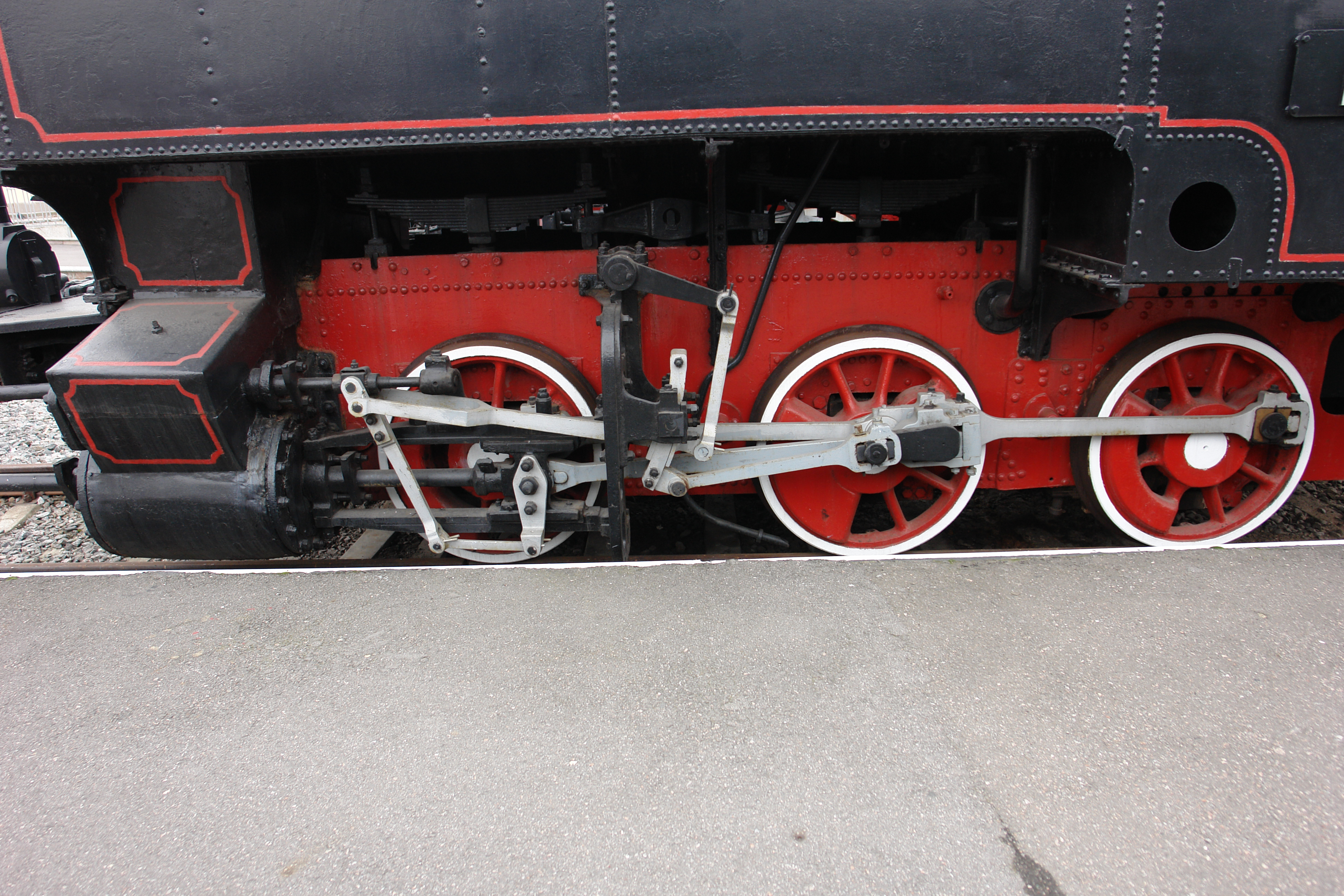 Tank steam locomotive (Soft Sign) 2023 Weight in serviceable condition42 t.Design speed45 km/hMaximum power on wheel rim350 hp One of the oldest surviving locomotives in Russia. Built in 1897 by Kolomna Works for the ladikavkaz Railway. Used for shunting until mid-1980 s. Equipped for burning oil. The locomotive is a part of the collection of the Central Museum of Railway Transport.